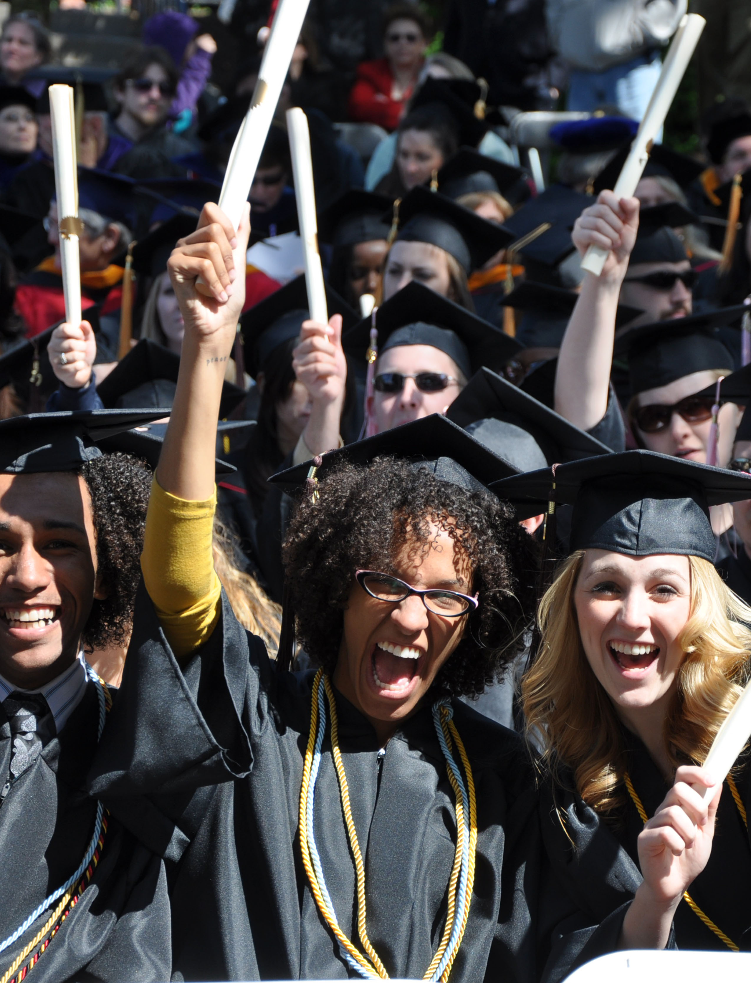 Recent graduates celebrating.